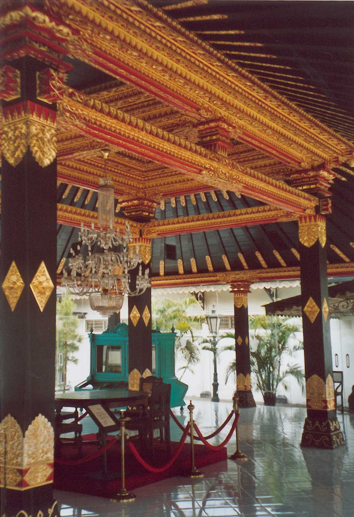 Main pavilion at the kraton of Yogyakarta, Indonesia